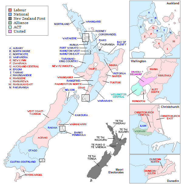 Election map depicting the electorate results of the New Zealand general election, 1996. Colours denote the party affiliation of the winning electorate candidates.